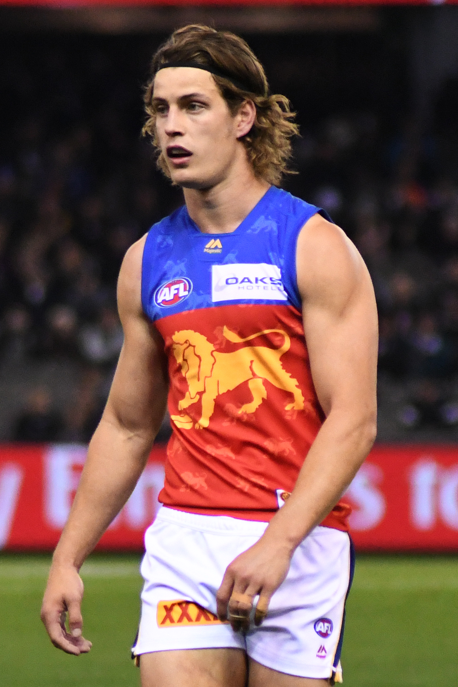 Jarrod Berry of Brisbane during the 2018 AFL round 21 match between Collingwood and Brisbane at Etihad Stadium on Saturday, 11 August 2018 in Melbourne, Victoria.